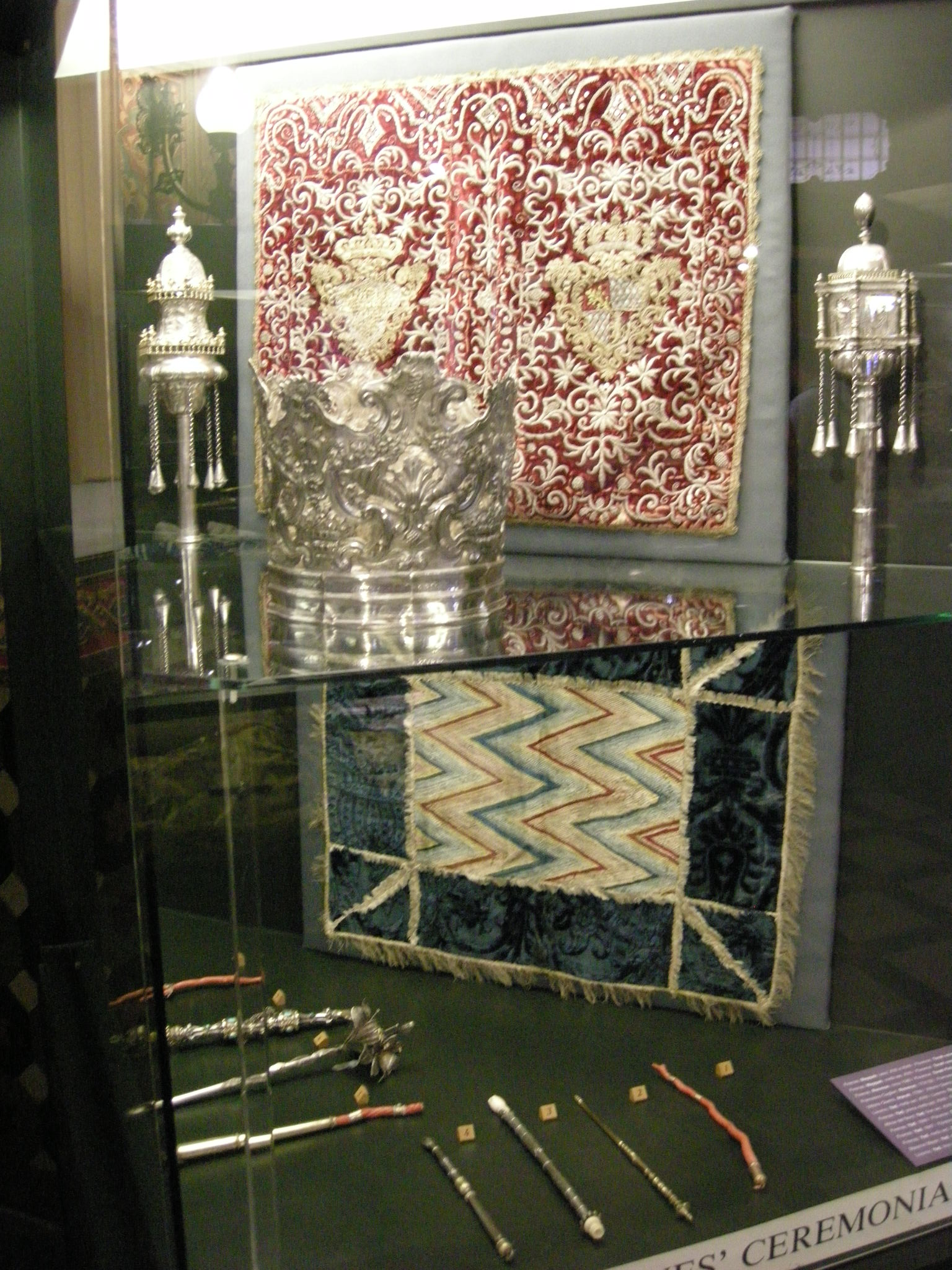 top level : Keter (crown), Rimonim (support covers) and Mapah (Table cover used to lay the Scroll. Lower level : Mapah and yadim (literally : hands; indexes) for reading.